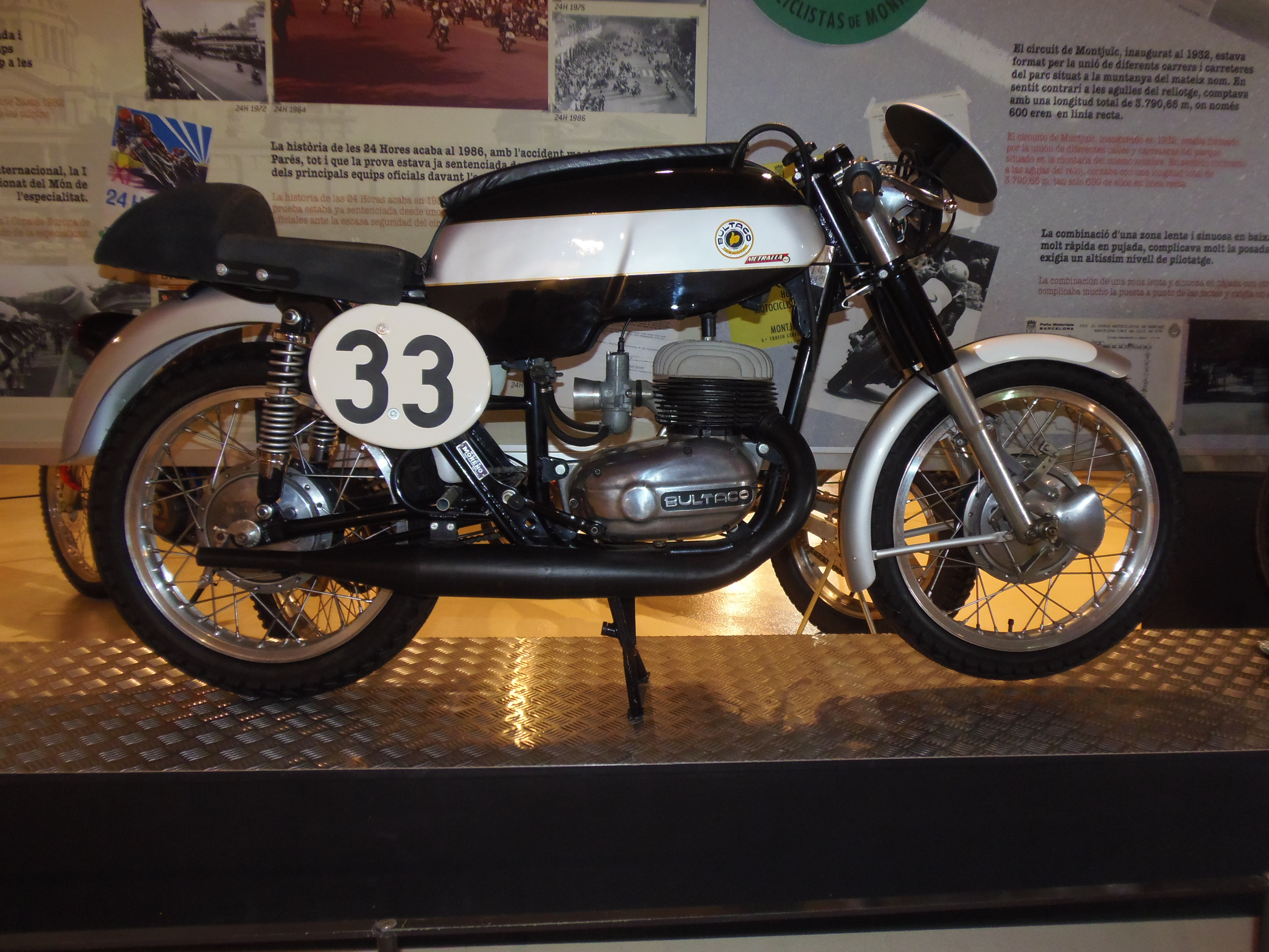 Bultaco Metralla Mk2 250cc. This bike was ridden by Pedro Alvarez and Mariano Postigo at 1967 24 Hours of Montjuïc